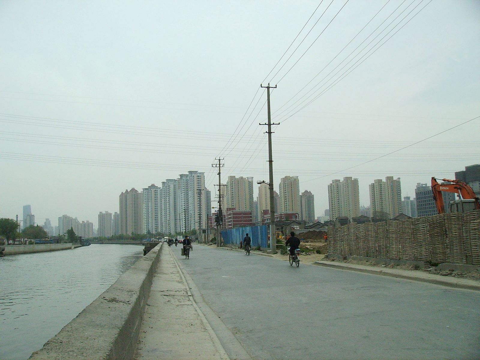 Changning Road